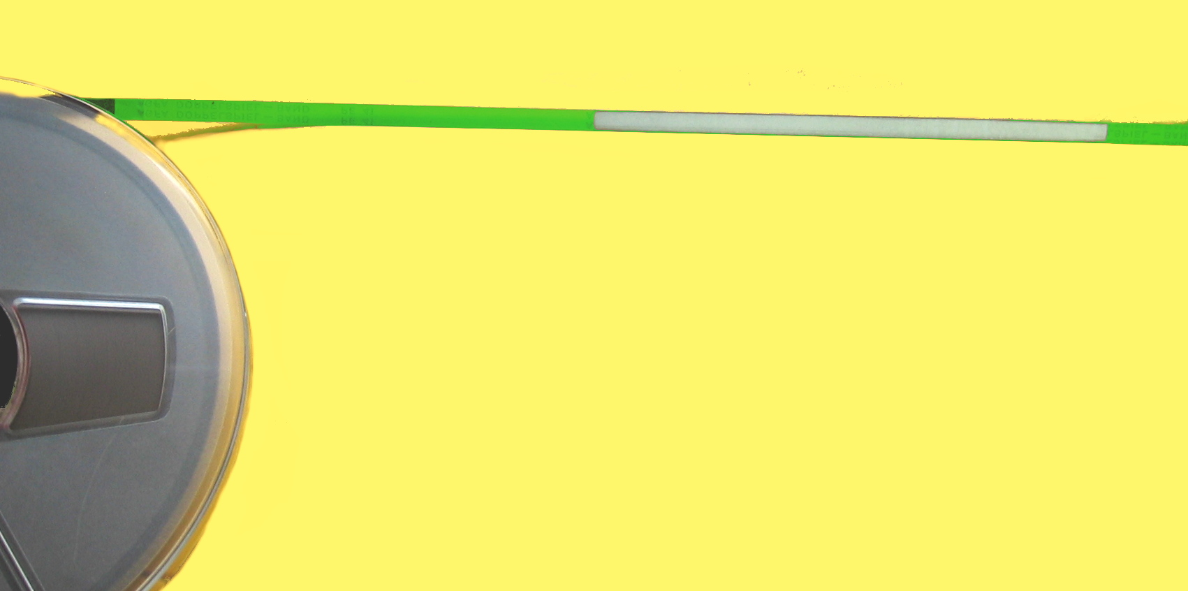 Conductive switching strip begin of tape